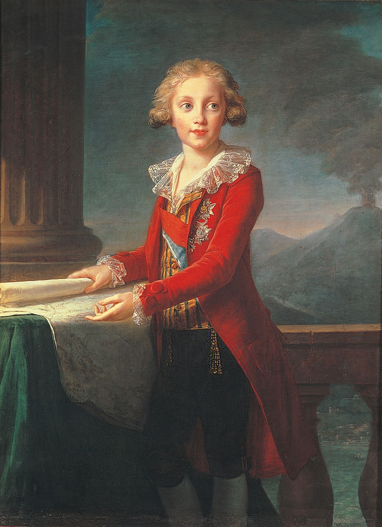 Francesco di Borbone (1777-1830) was the son of Ferdinand IV, King of Naples and Queen Maria Caroline of Austria, sister of Marie Antoinette. Francesco became King of Naples in 1825. His oldest daughter was the firey Duchesse de Berry (1798-1870) painted in 1828. In 1790 at the request of the Queen, Vigée le Brun agreed to delay her departure from Naples in order to paint Prince Francesco and his three sisters Maria Theresa (soon to be Empress of Austria), Maria Louisa (later Grand Duchess of Tuscany) and Maria Christina (Later Queen of Sardinia).